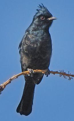 Phainopepla